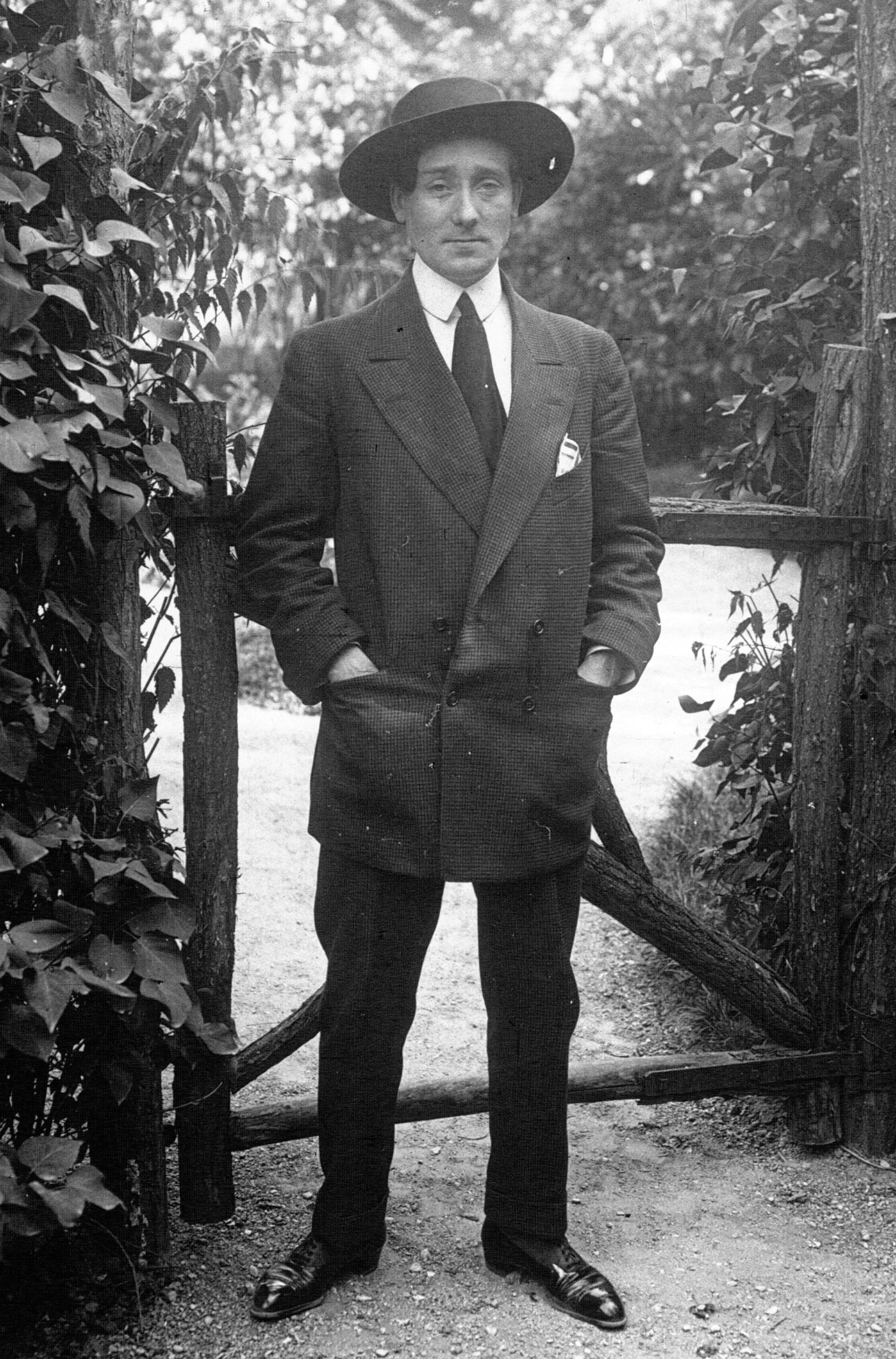 French actor, screenwriter and film director Jacques de Féraudy (1886-1971).